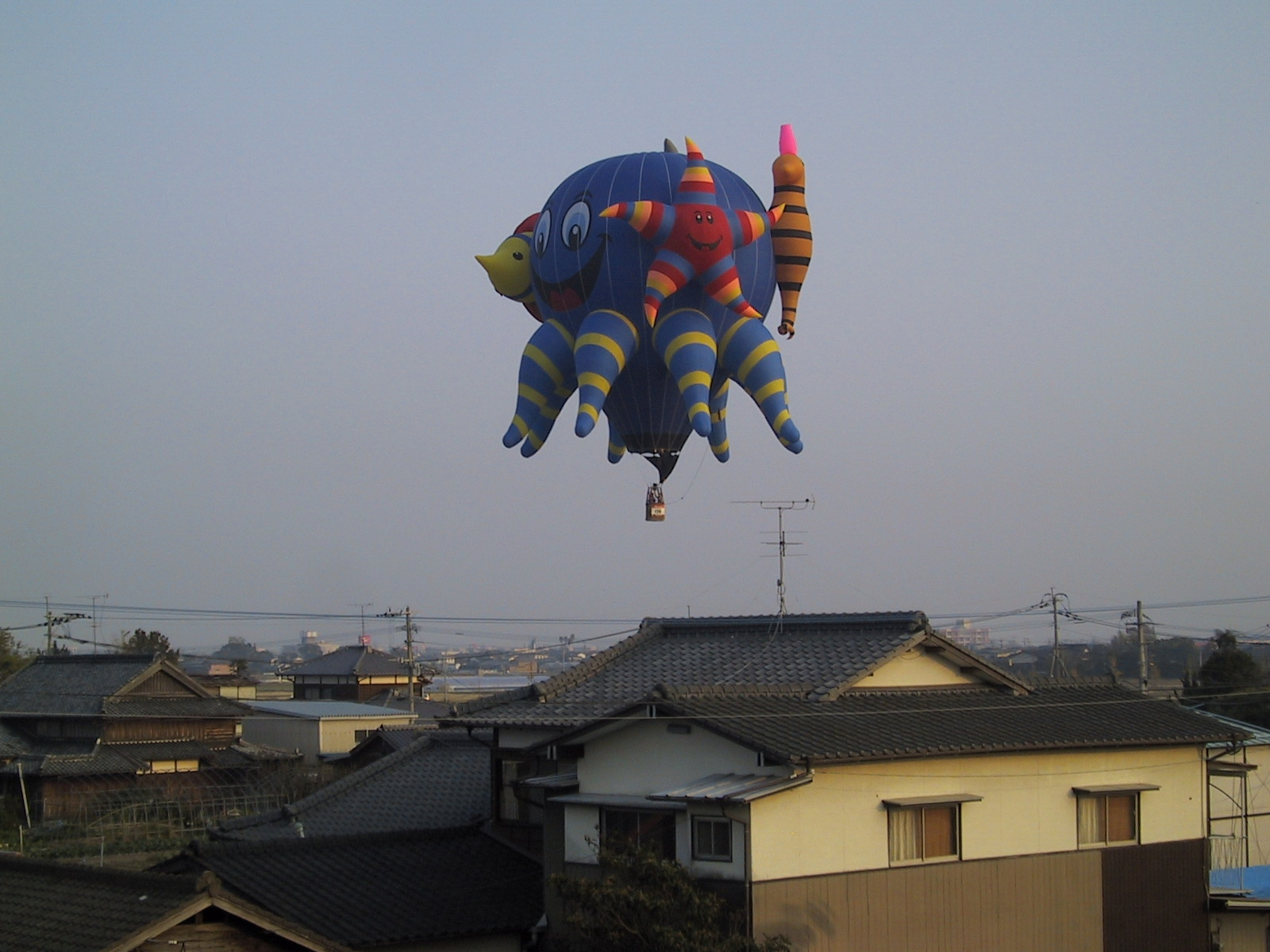 Hot air balloons entered Saga International Balloon Fiesta 2004